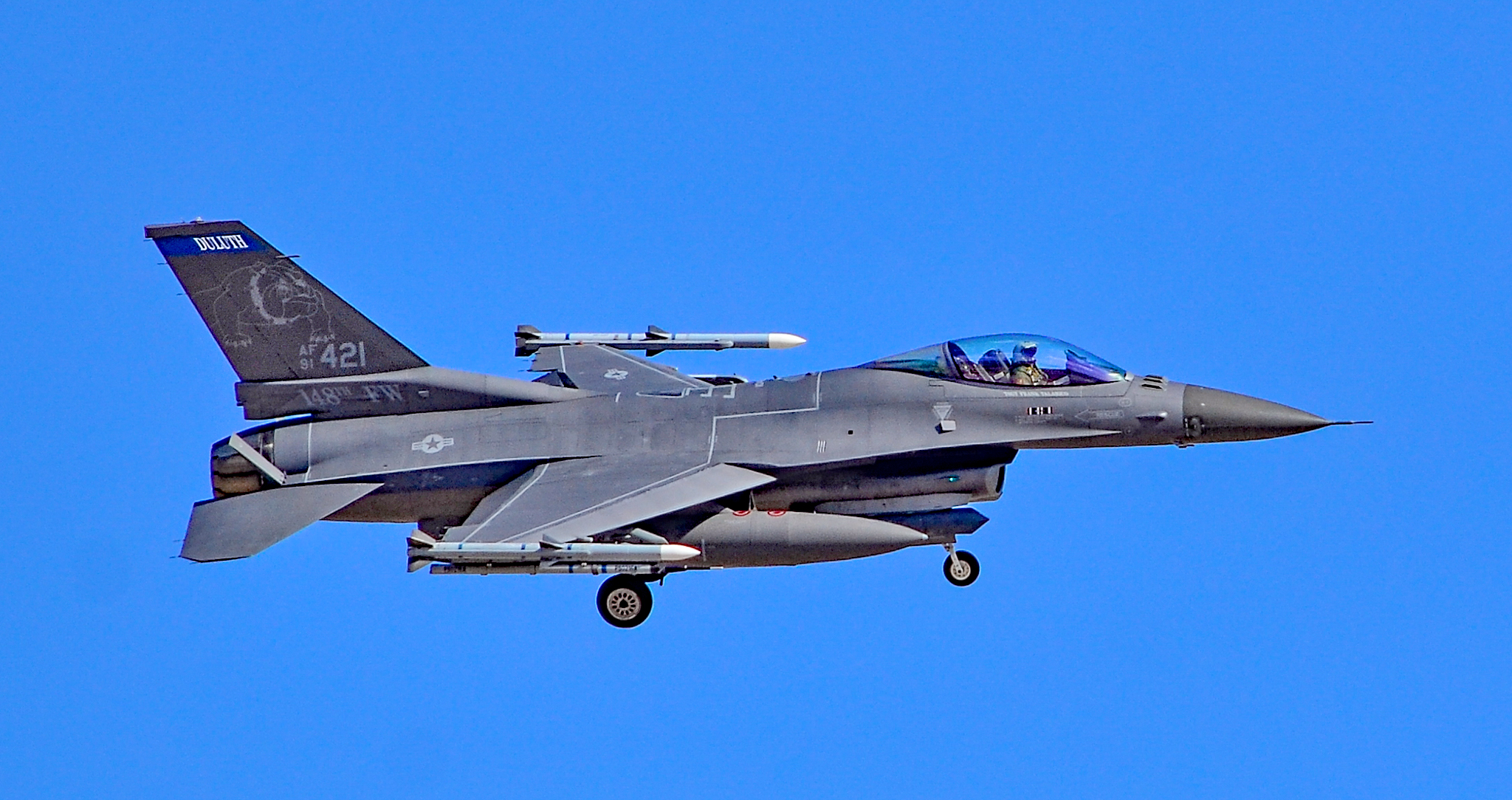 Las Vegas - Nellis AFB (LSV / KLSV) USA - Nevada, September 15, 2017 Photo: TDelCoro